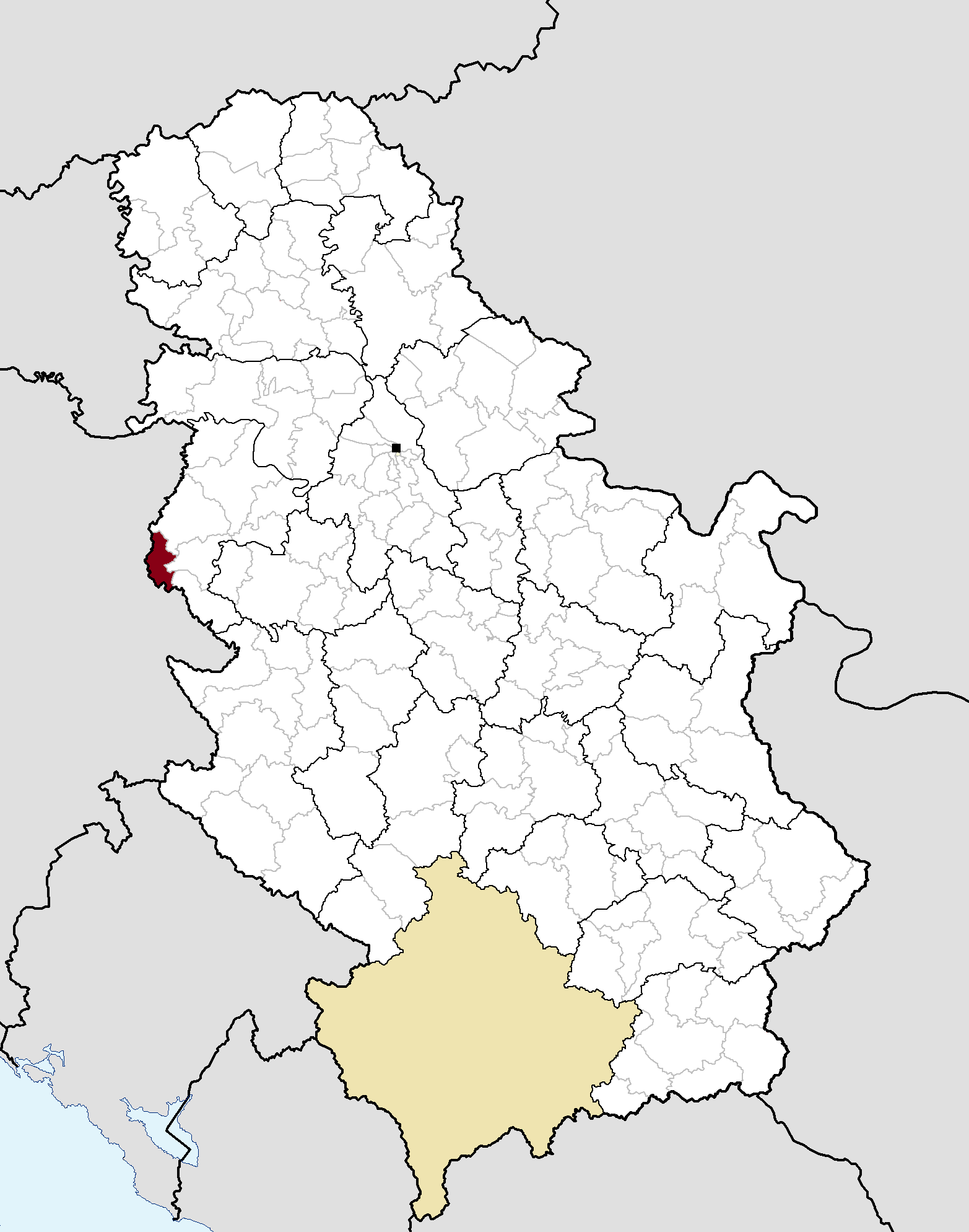 Municipal location in Serbia